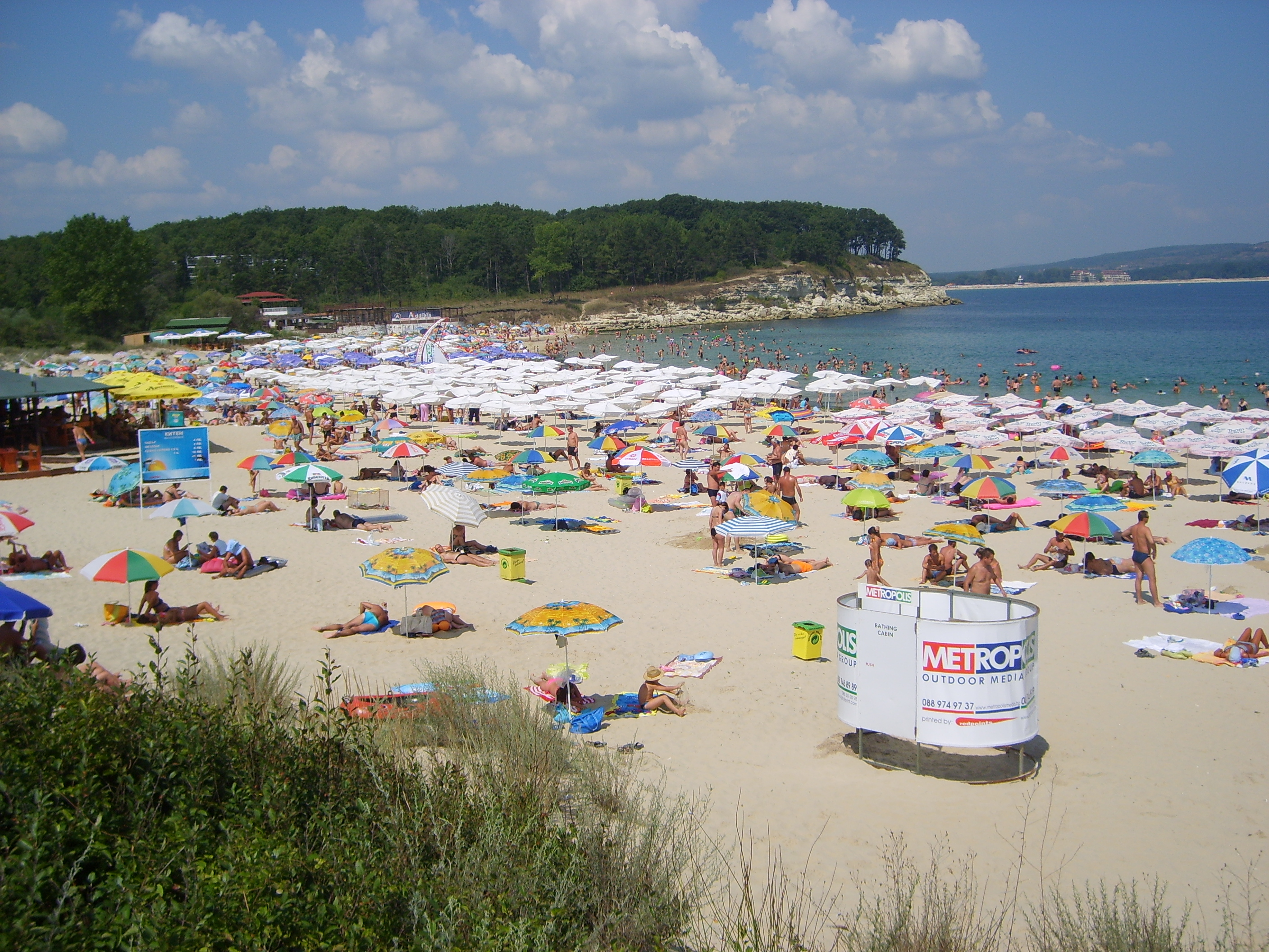 Atliman (Northern) Beach in Kiten